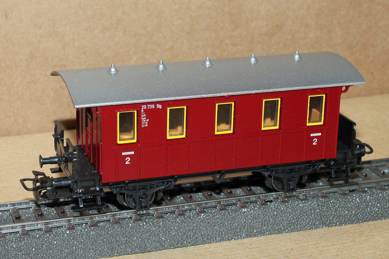 Märklin products H0